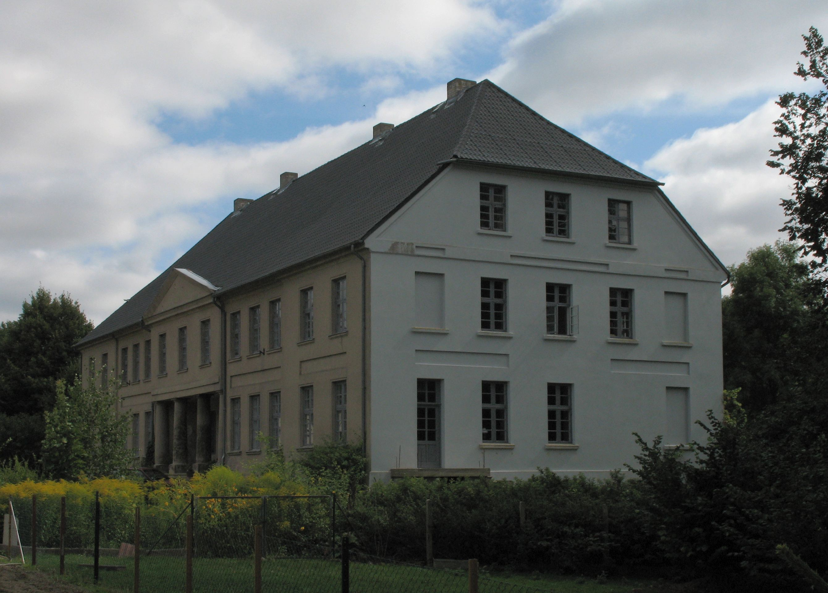 Manor in Behren-Lübchin-Bobbin in Mecklenburg-Western Pomerania, Germany